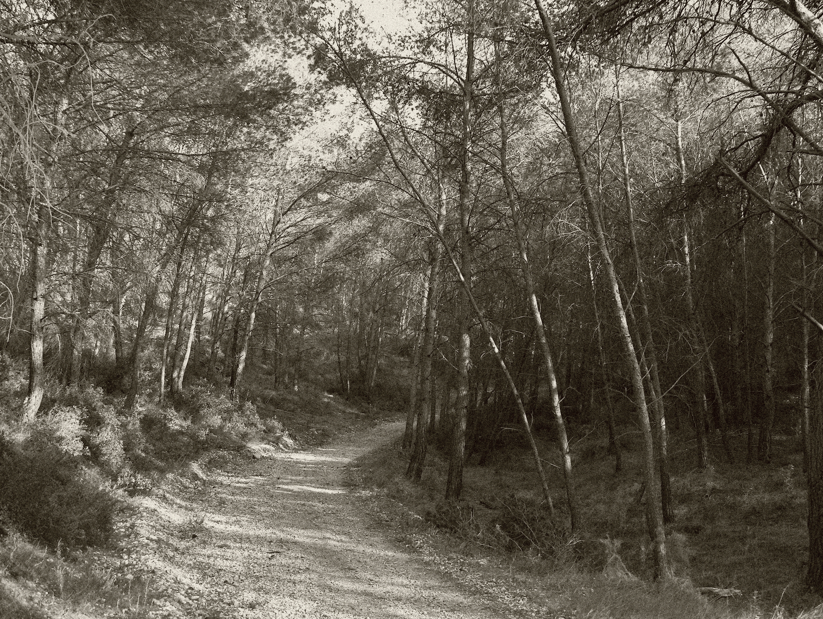 Pine forest to Martigues (Bouches-du-Rhône, France)